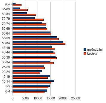 age pyramid for Kornwall